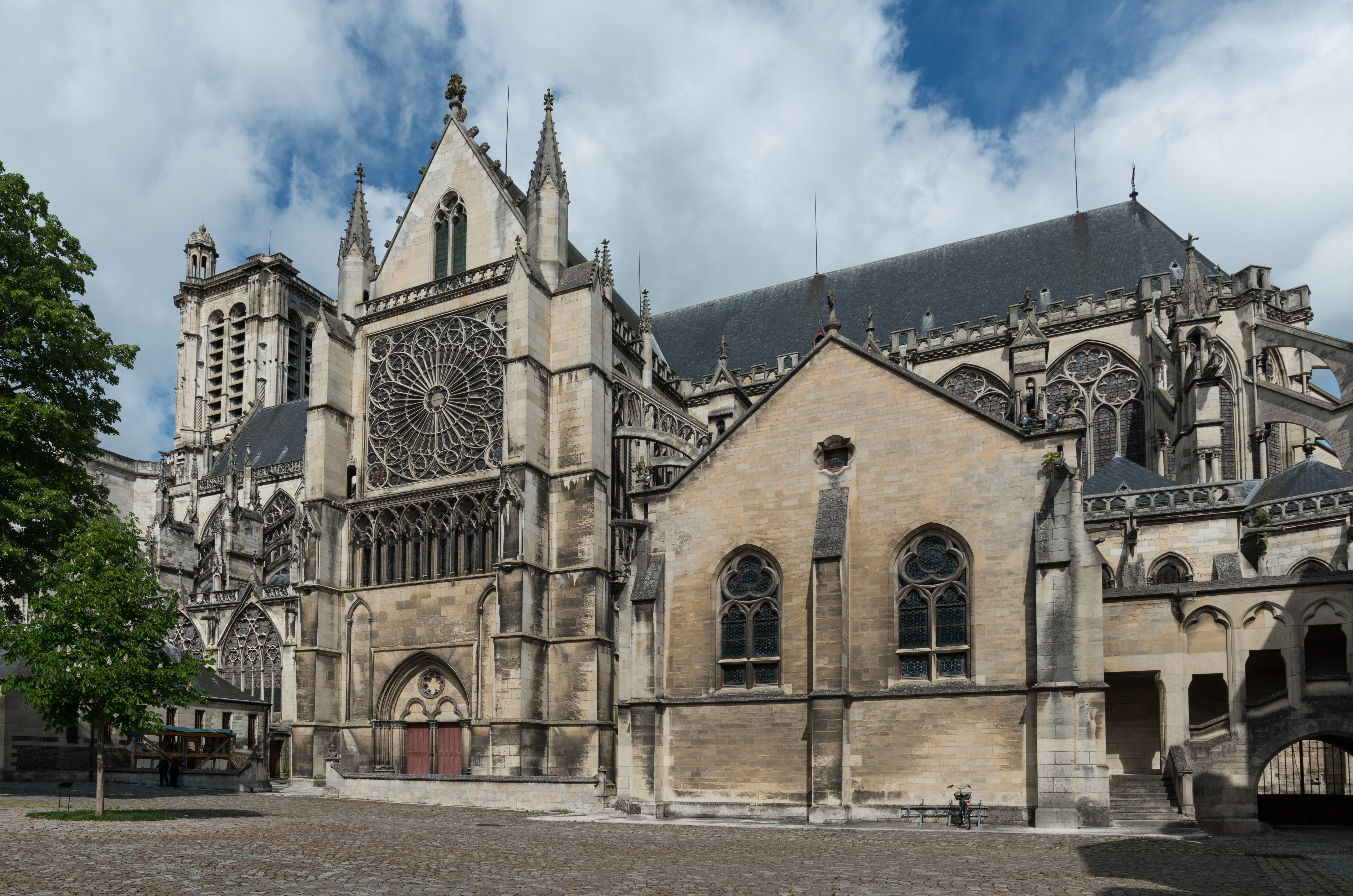 Troyes Cathedral, as seen from south-west